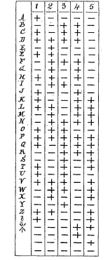 Baudot code as originally laid out in Baudot's patent